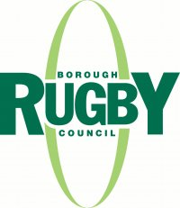 Logo of Rugby Borough Council